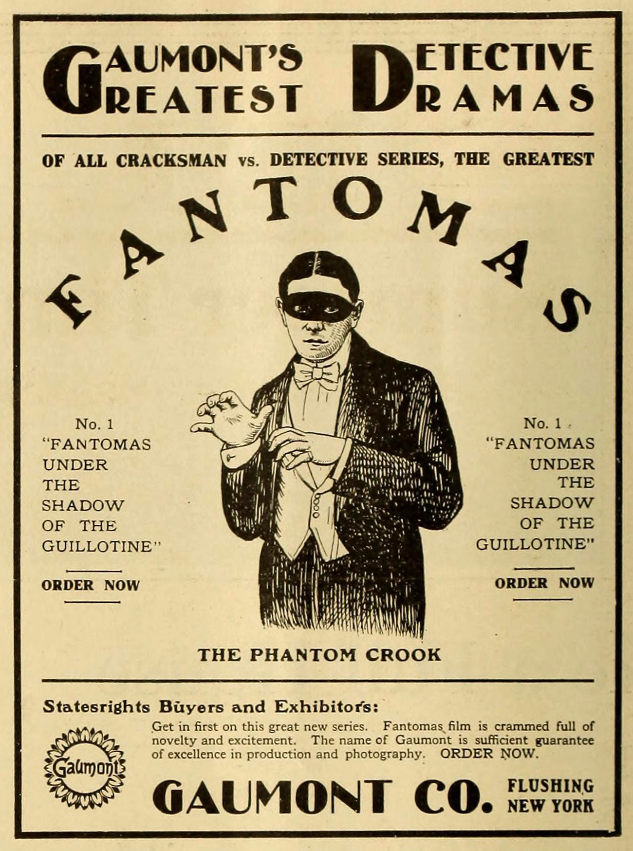 Advertisement in the American film journal Motography (vol. X, n° 2) for the film Fantômas (1913).